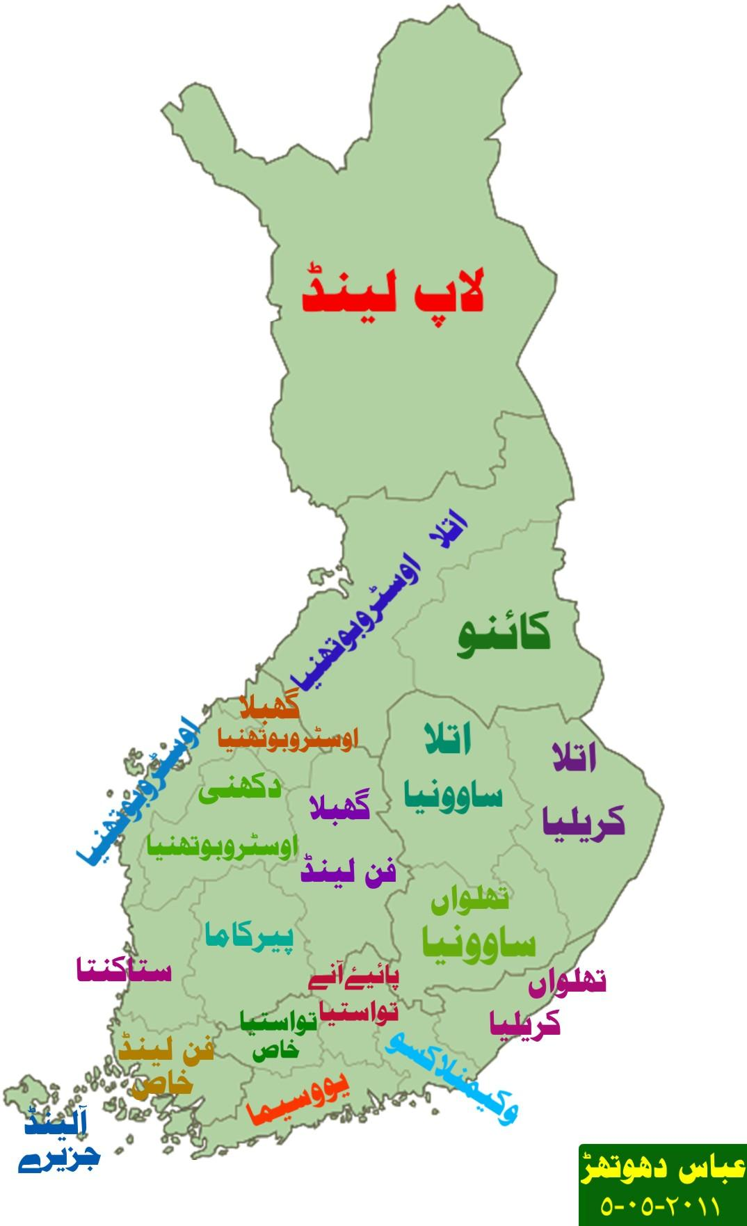 Map of subdivisions of Finland in Punjabi.